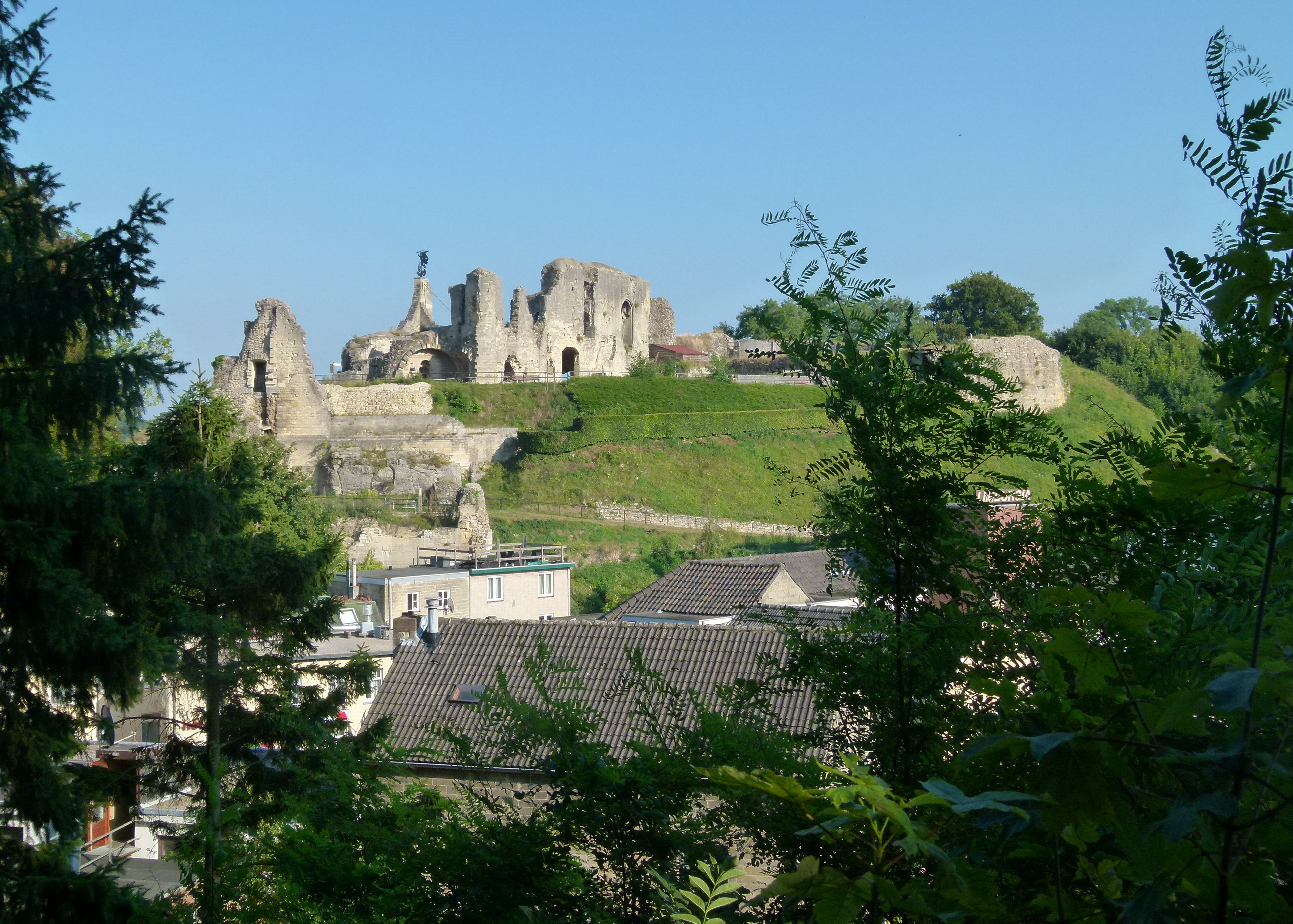 Valkenburg, Limburg, the Netherlands. View of the ruins of Valkenburg Castle, destroyed in 1672.